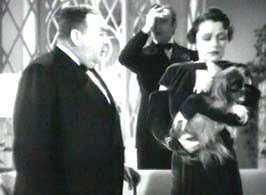 Screenshot from My Man Godfrey